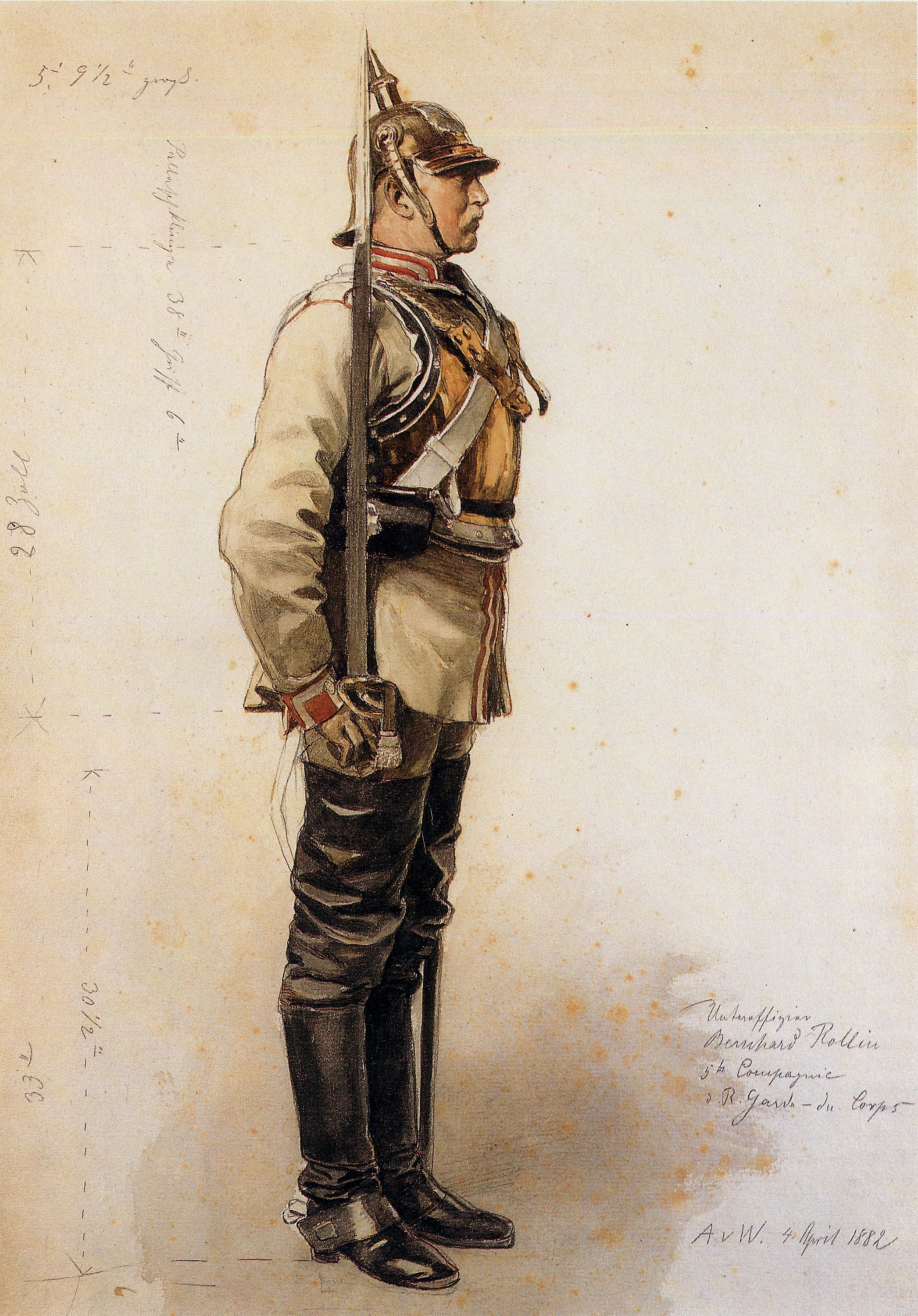 Prussian cuirassier of the Garde-du-Corps. (artist: Anton von Werner, year: 1882, dimensions: 50 × 35 cm, method: water colour, privately owned, era: realism, country: Germany) Gemeinfrei / public domain